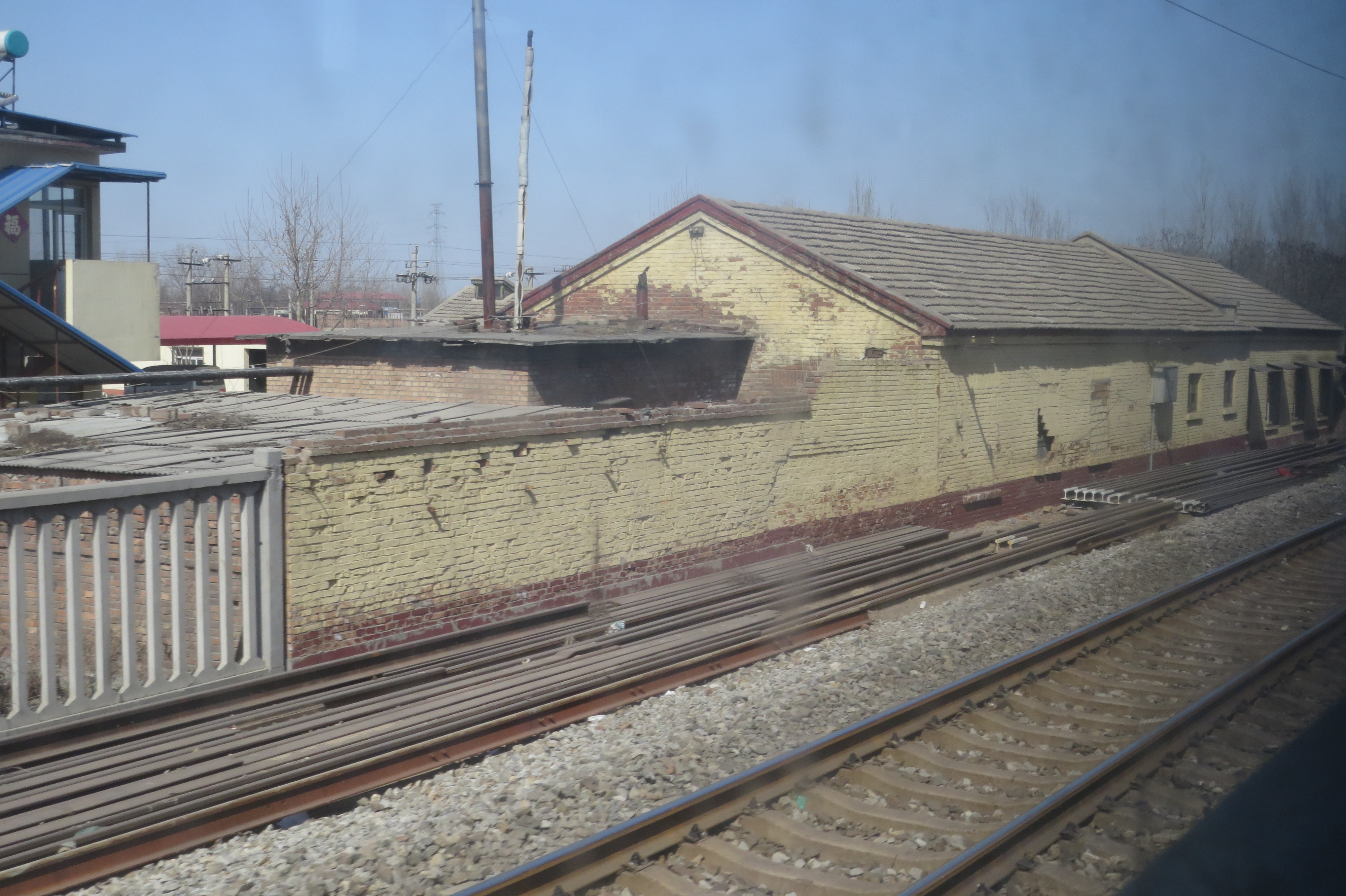 Caohe without Jing. Those who are familiar with Shanghai may know Caohejing, but there's a Caohe in Baoding. This station is single-sided, with the station building on the east, maybe.